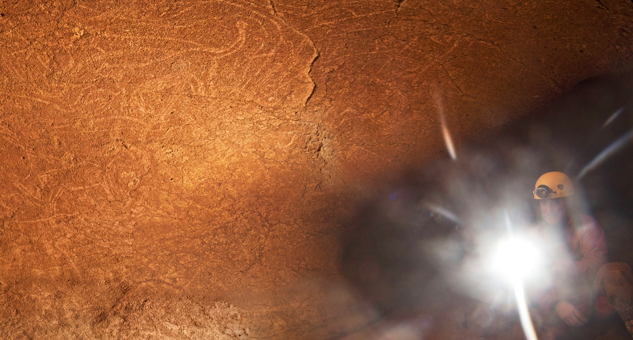 Stitched Panorama